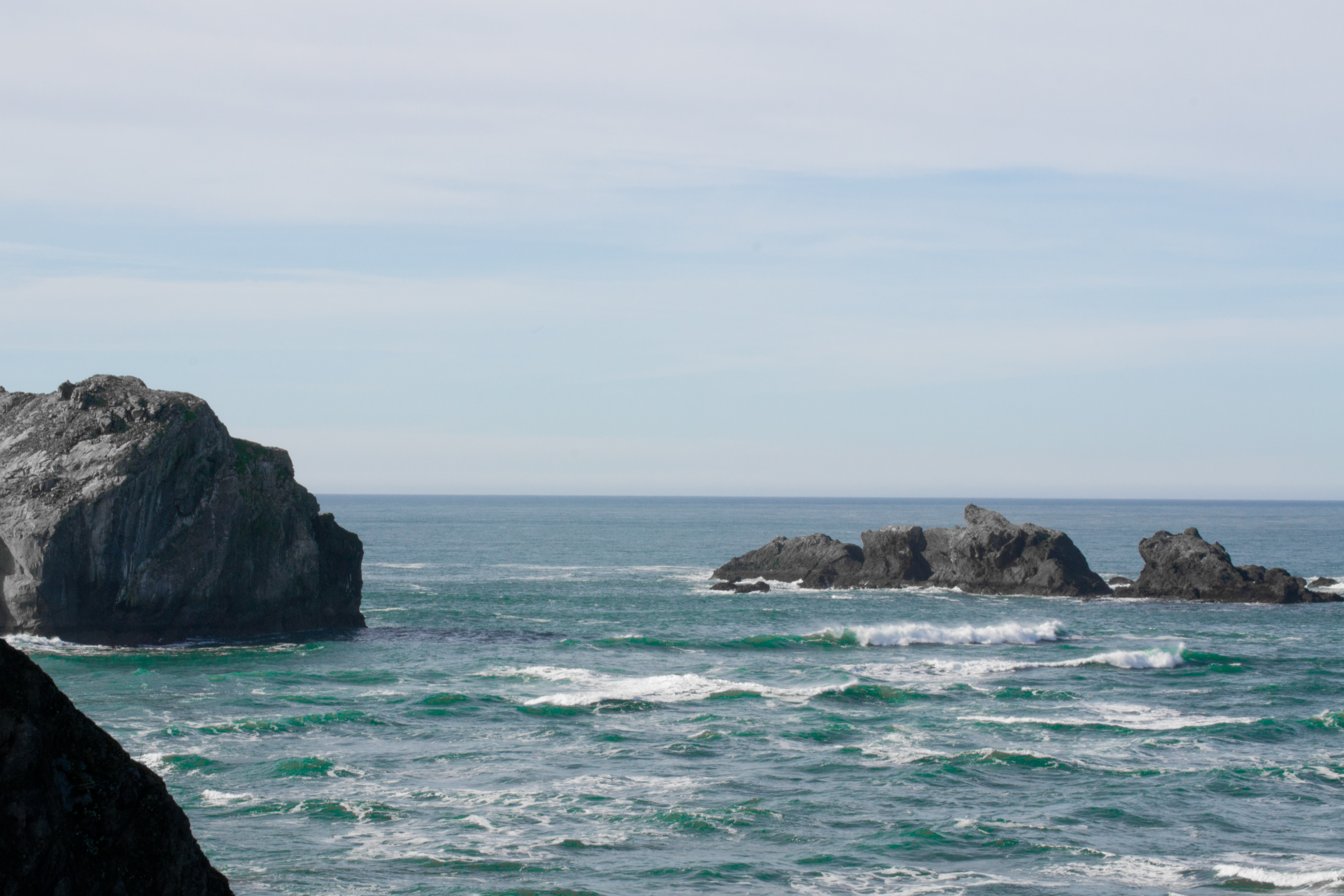 Near the horizon on the left.